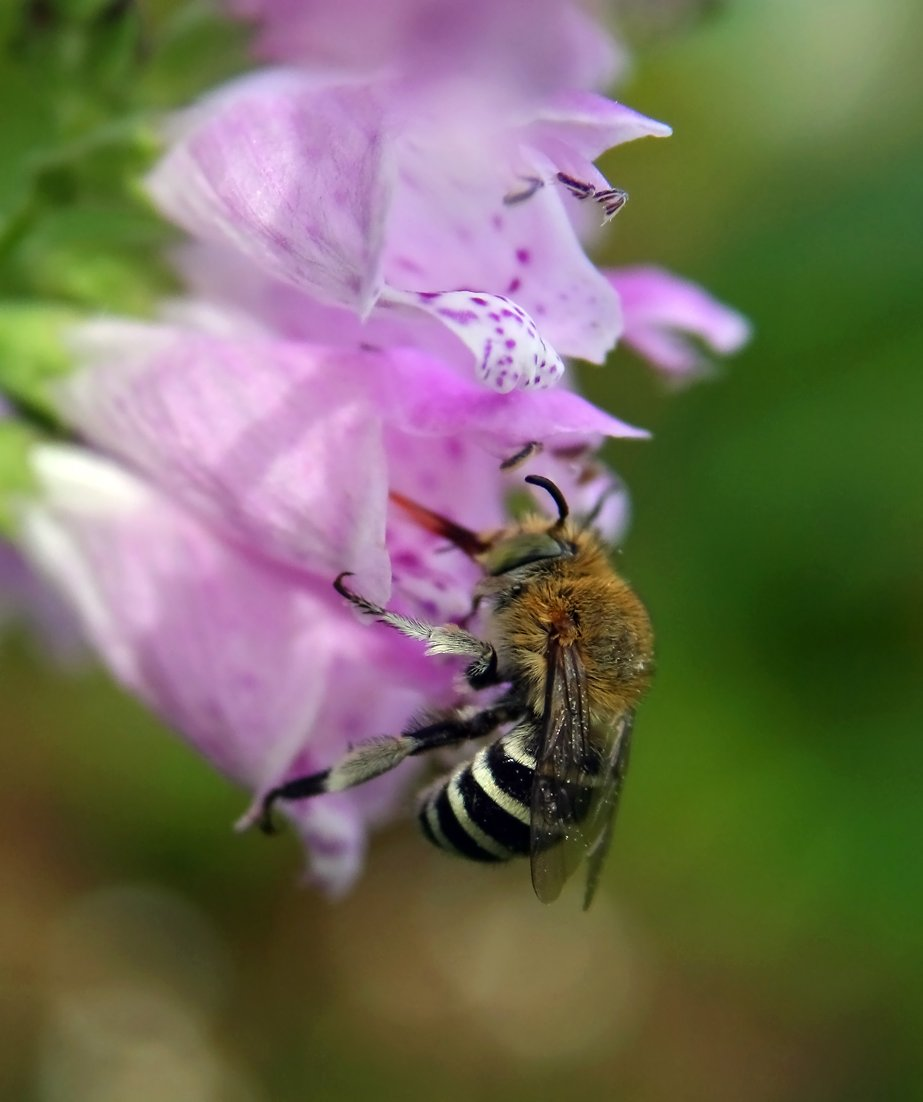 I managed to sneak out between showers today and manage to get a picture of a lil Blue Banded bee getting a feed from an Obedient Plant or Physostegia Taken with a +4 macro filter on 18-55mm kit lens